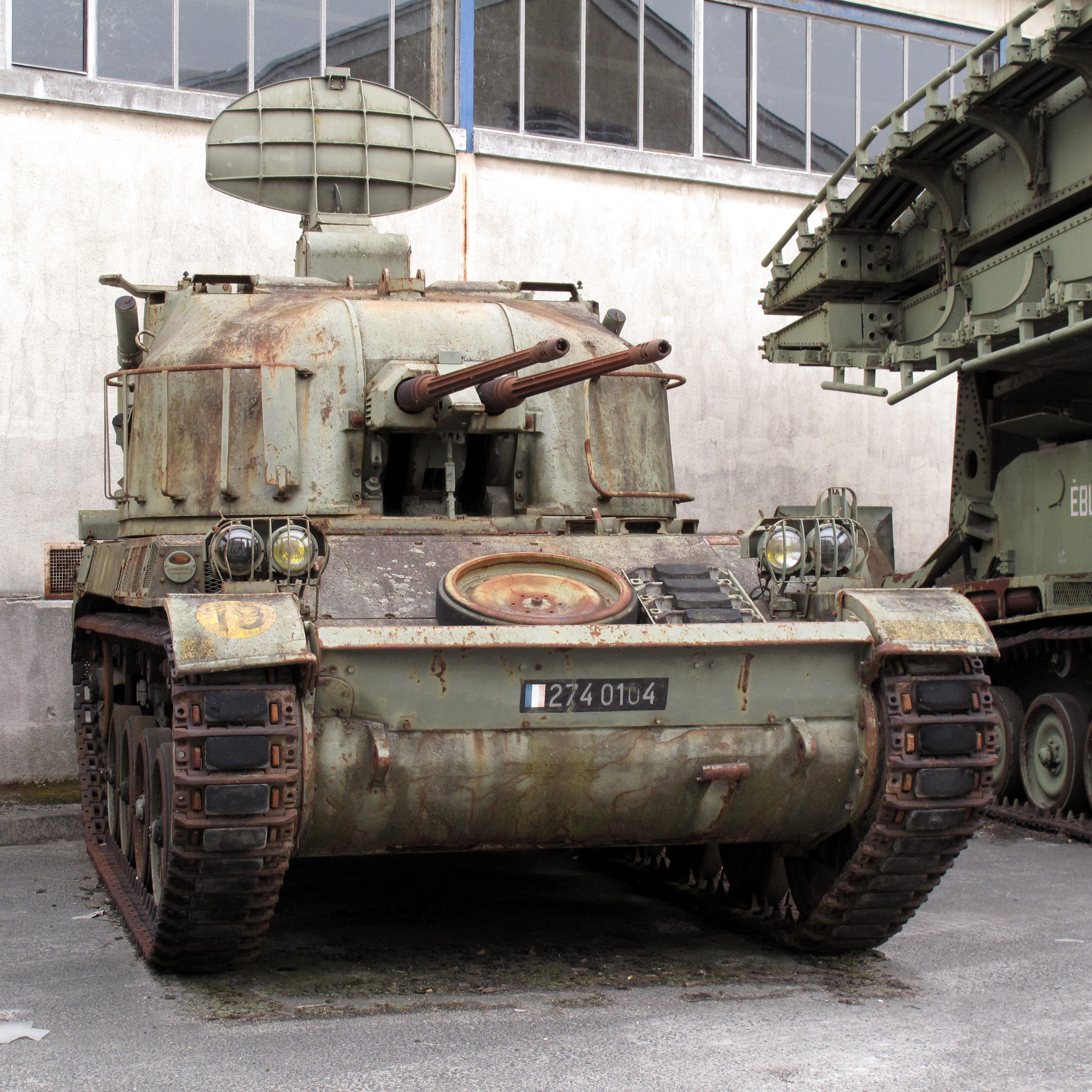 AMX-13 or variant. On display at Saumur Général Estienne museum.